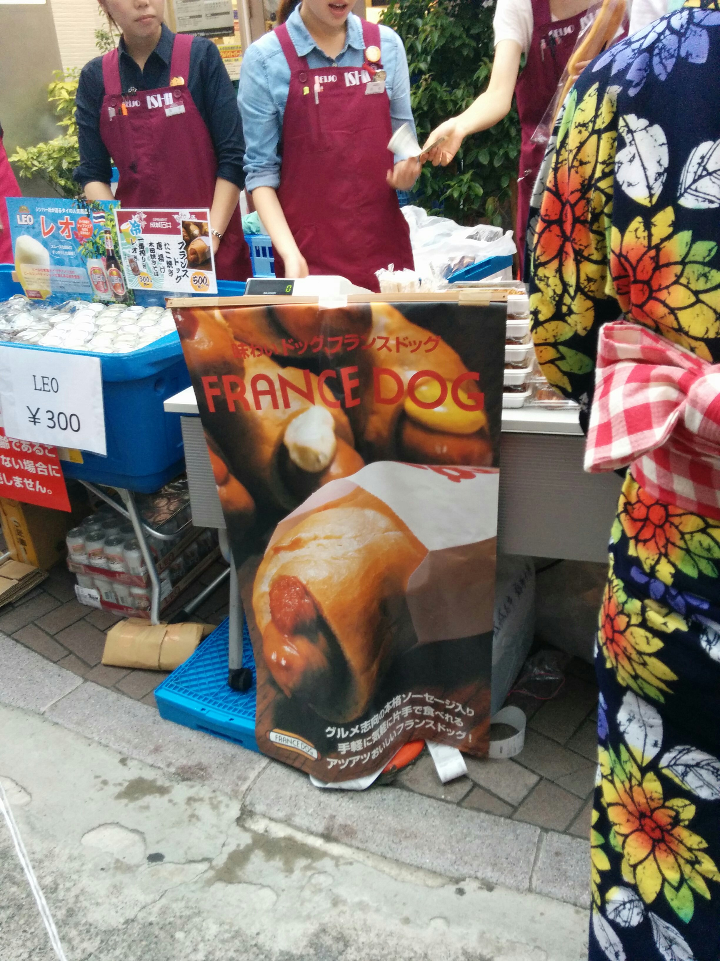 "France Dog": Hot dogs made with French bread. By Seijo Ishii